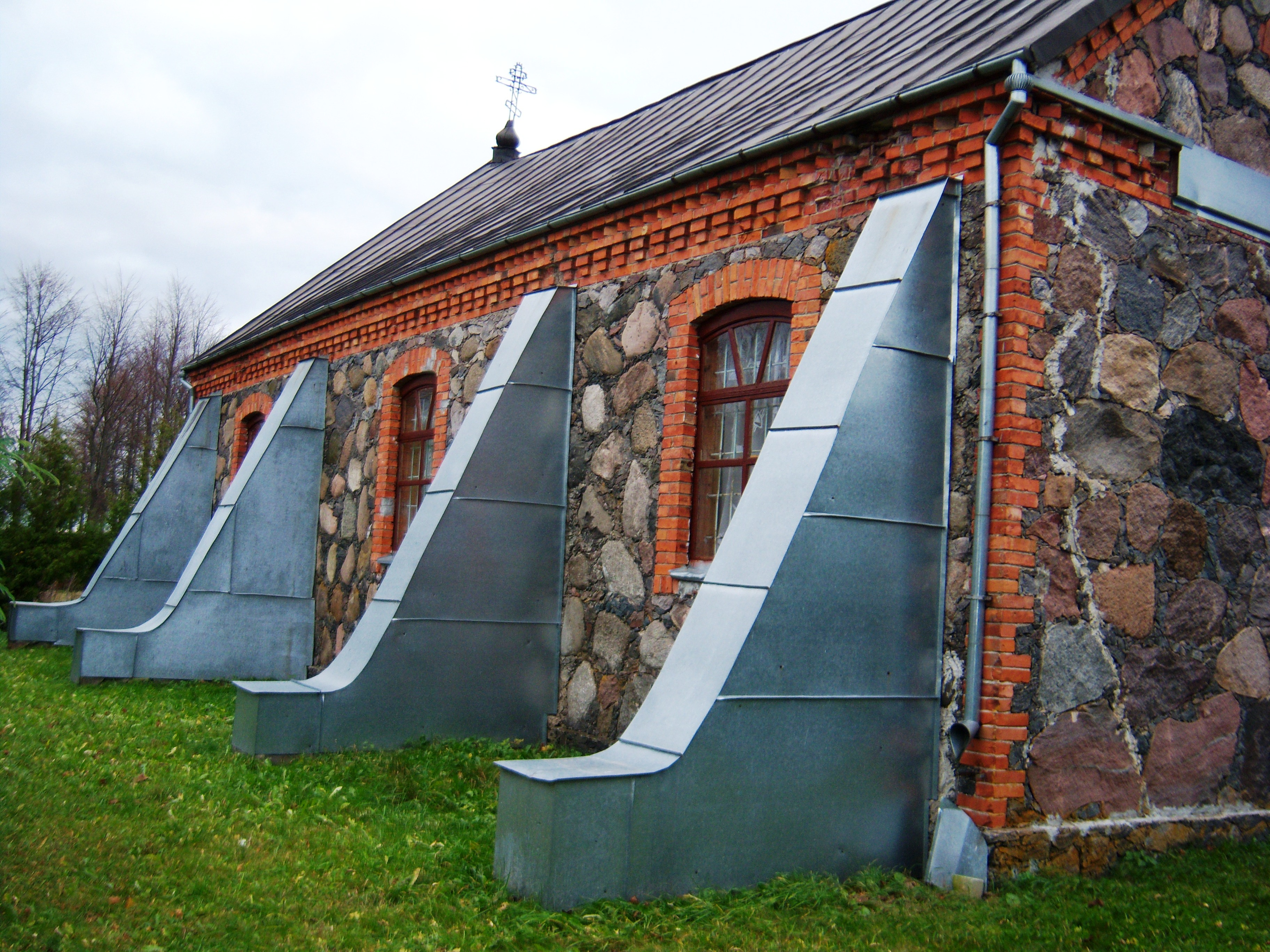 Orthodox Church of Old Believers in Bagdonys, Kupiškis District, Lithuania